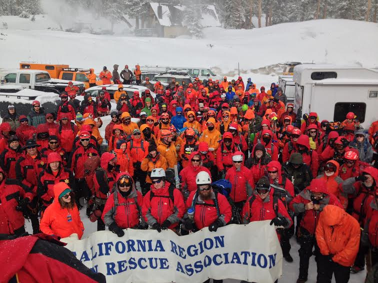 in March 2016 the California Region of the MRA met in Mammoth Lakes California to test in "Snow and Ice" for their yearly Re-Accreditation test. The 2016 Re-Accredidation was hosted by Inyo County Search and Rescue.